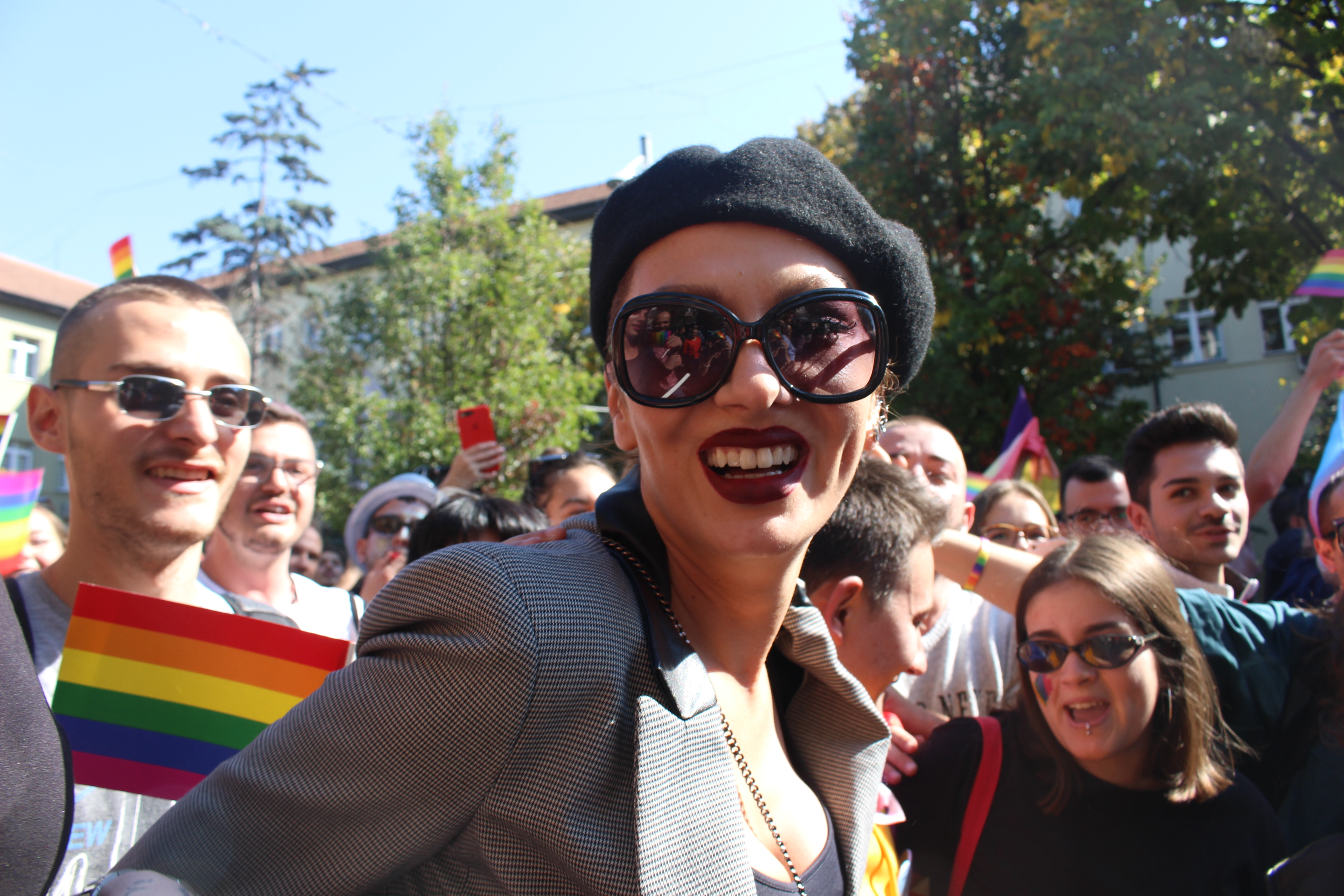 Adelina Ismajli during the Kosovo Pride 2018.